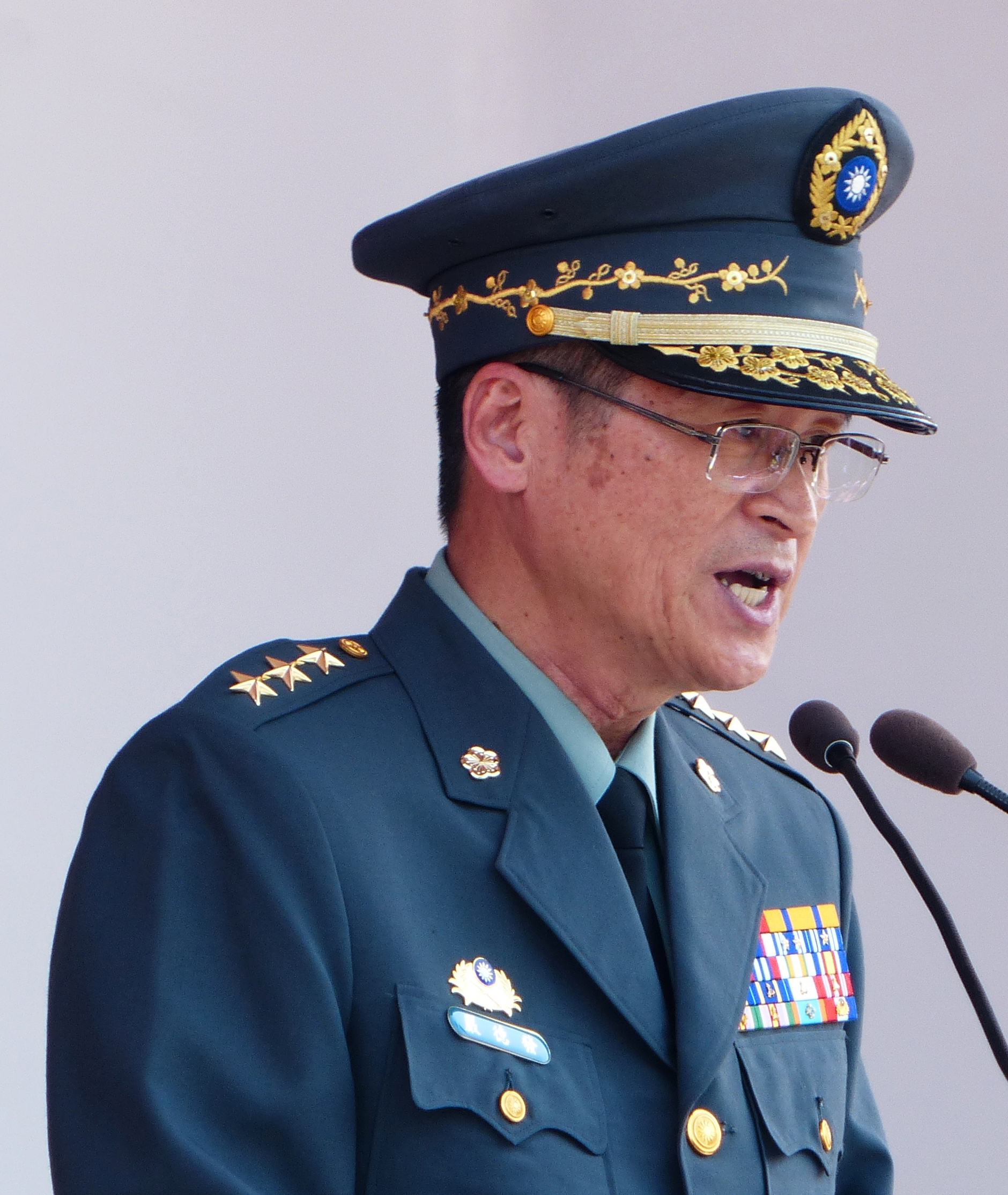 General Yen Teh-fa, Commander of the Army, delivered a speech on the opening ceremony of the Military Academy Open Day 2014.